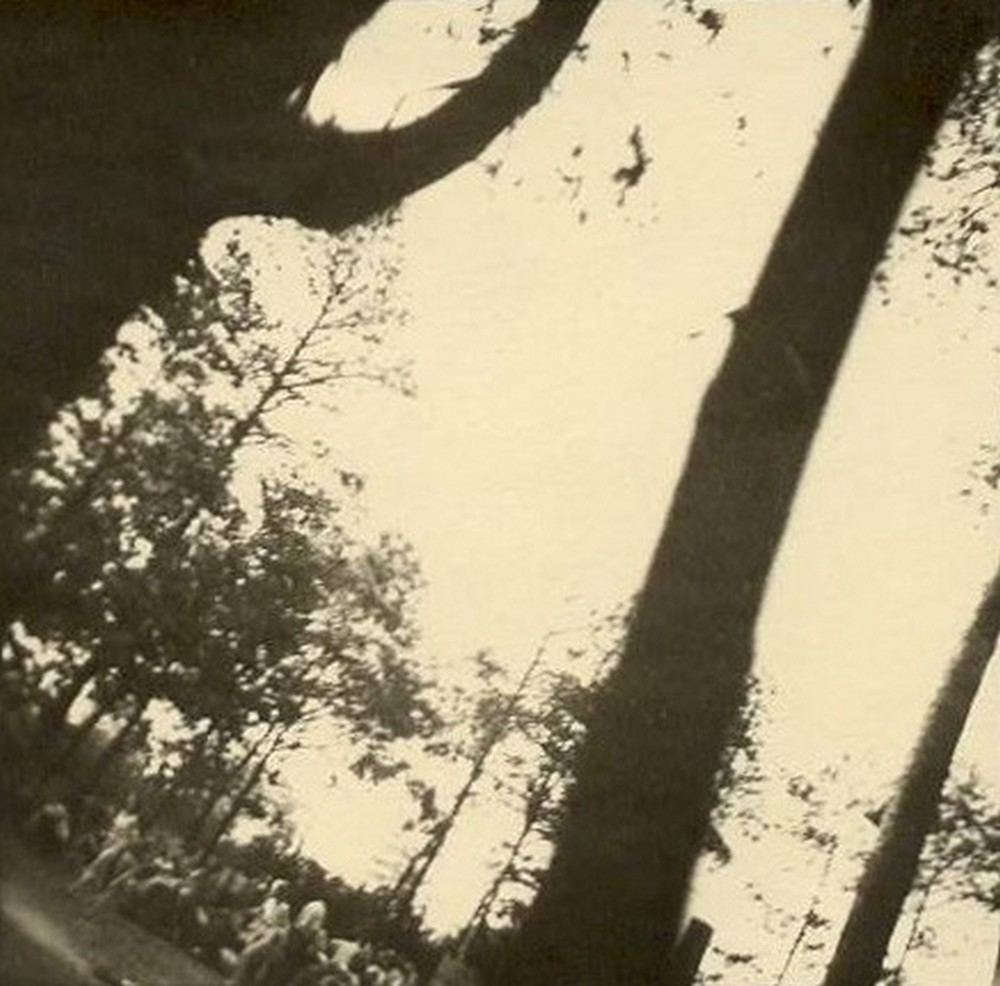 Auschwitz resistance 282a